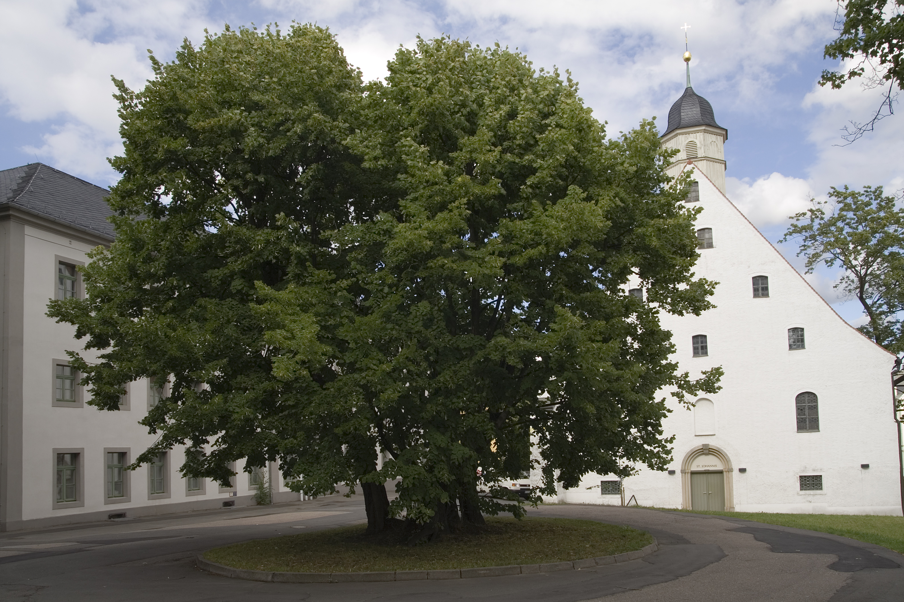 Torstensson-Linde (also: Torstenson-Linde, Hospital-Linde or Spital-Linde): very old lime-tree in Freiberg, Saxony